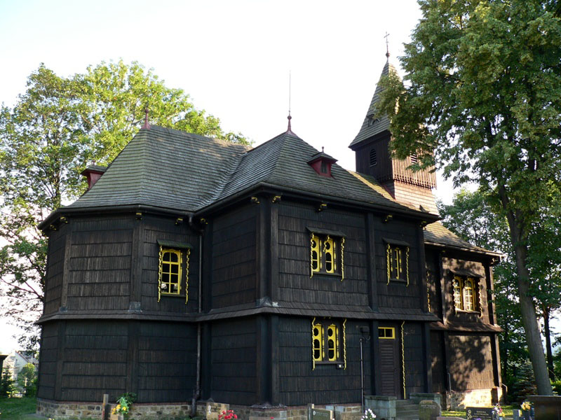 Exaltation of the Cross Church in Bystřice (Bystrzyca), Czech Republic